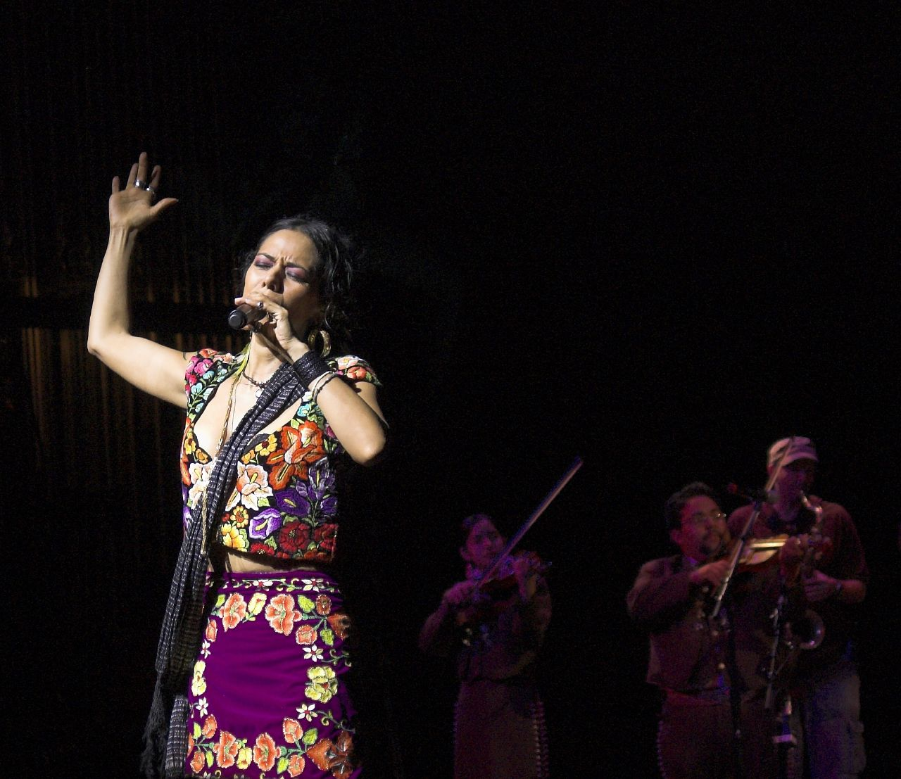 Lila Downs during "National Sor Juana Festival" in march of 2007.